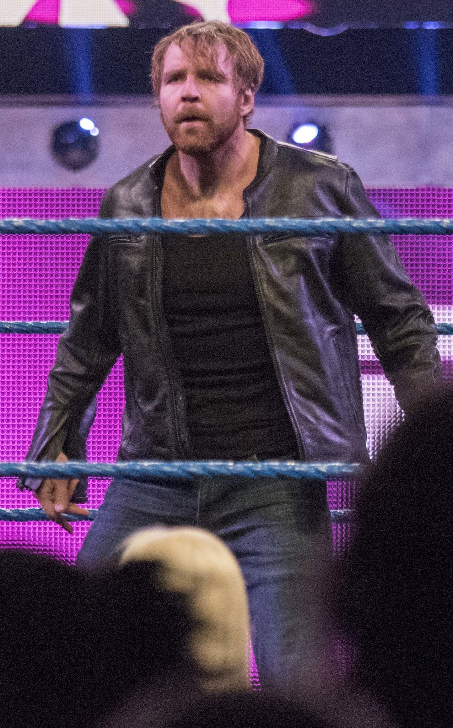 This image shows professional wrestlers Dean Ambrose, The Miz and AJ Styles performing at the 14th annual Tribute to the Troops event in December 2016.